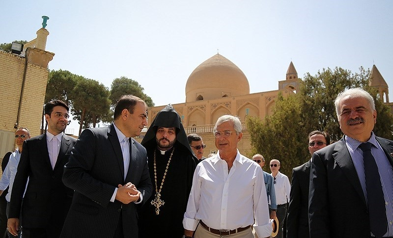 Claude Bartolone, President of the French National Assembly at Isfahan